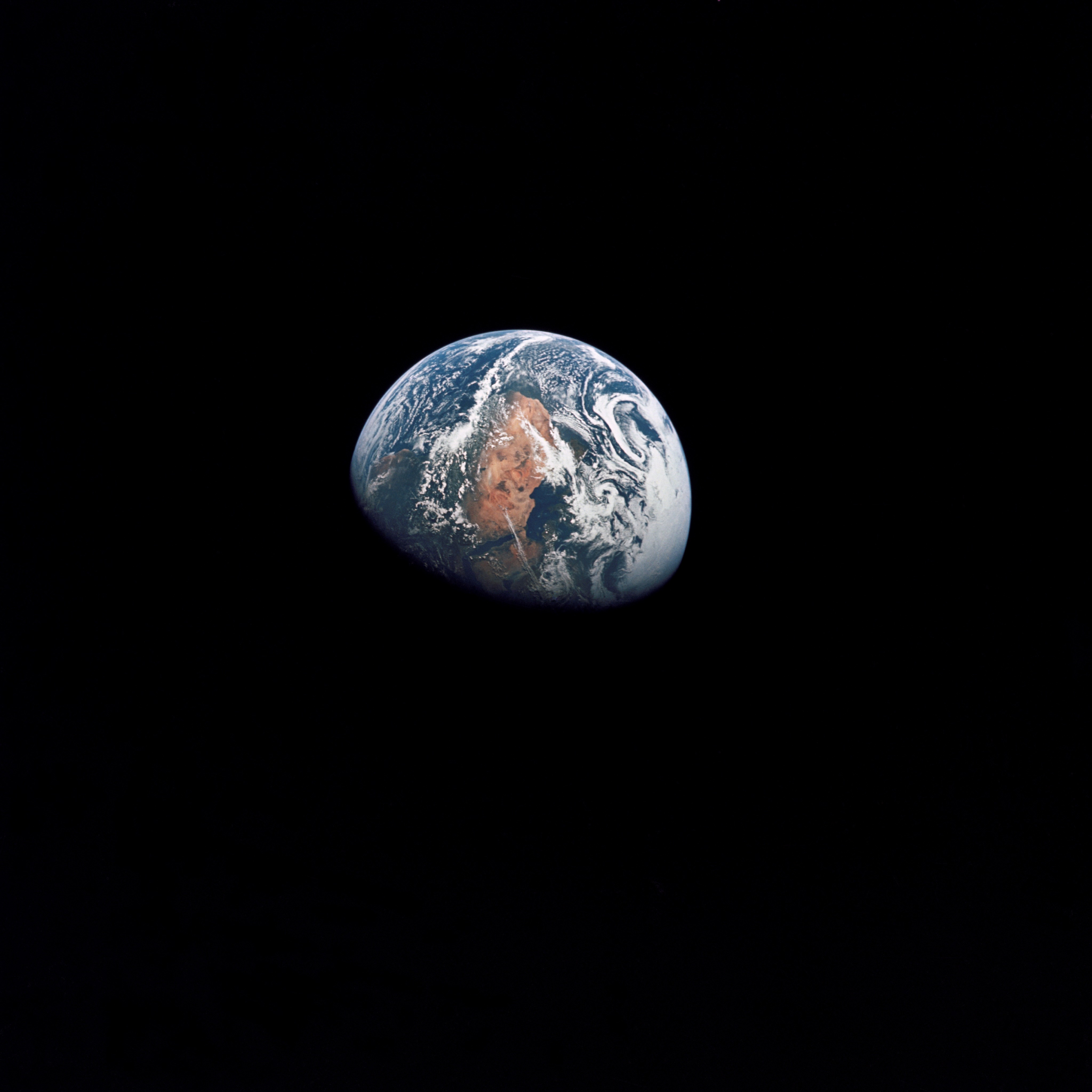 AS10-34-5026 (18-26 May 1969) --- An Apollo 10 photograph of Earth taken from 100,000 miles away. Visible are many areas of Europe and Africa. Among the features and countries identifiable are Portugal, Spain, Italy, the Mediterranean Sea, Greece, Turkey, Bulgaria, the Black Sea, Libya, Egypt, Saudi Arabia, the Sinai Peninsula, the Nile Delta, Lake Chad, and South Africa. The crew members for Apollo 10 are astronauts Thomas P. Stafford, commander; John W. Young, command module pilot; and Eugene E. Cernan, lunar module pilot. Astronaut Young remained in lunar orbit, in the Command and Service Modules (CSM) "Charlie Brown", while astronauts Stafford and Cernan descended to within nine miles of the lunar surface, in the Lunar Module (LM) "Snoopy".